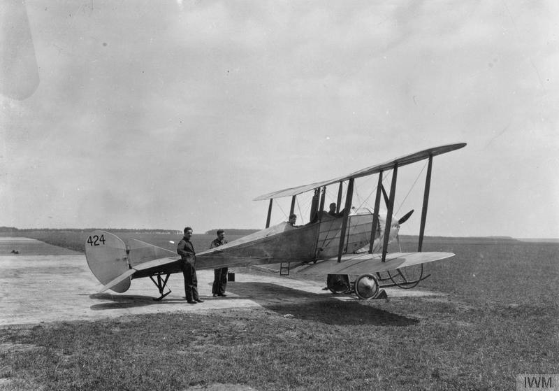 British Aircraft of the First World War Royal Aircraft Factory B.E.8 two-seat general purpose biplane, production version. Serial number 424. The Central Flying School, Upavon.